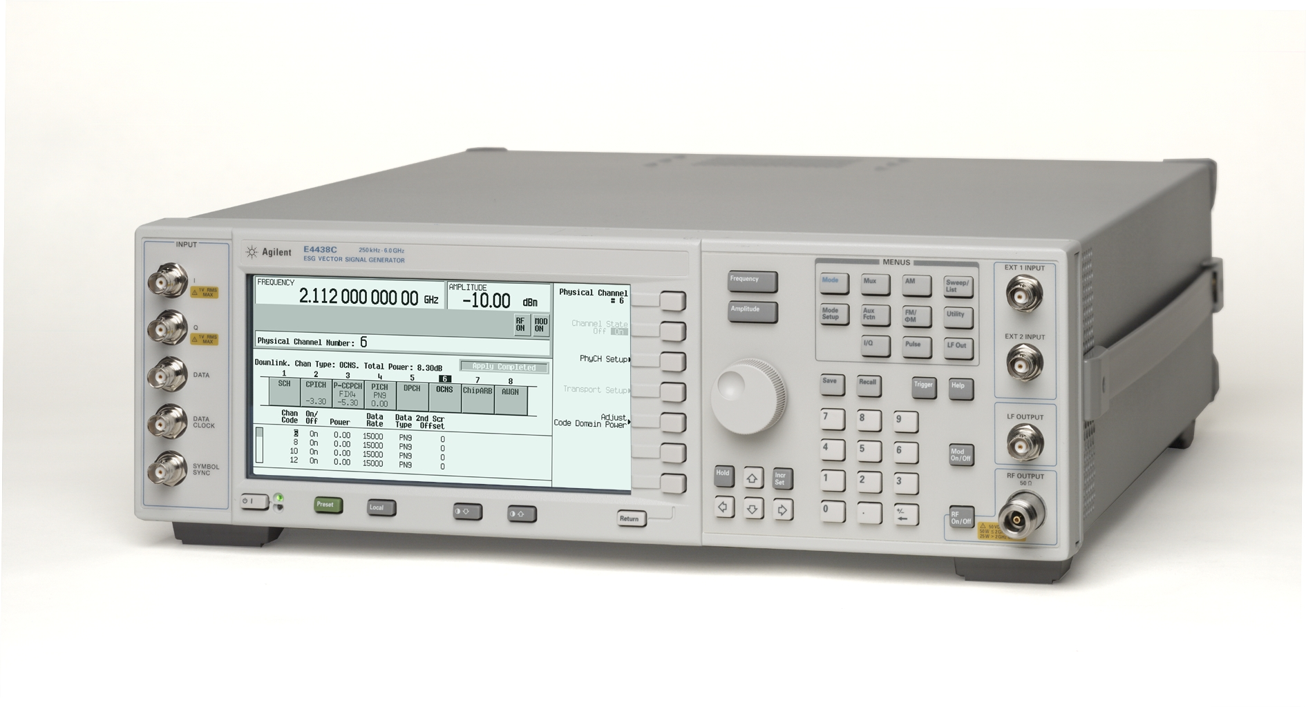 E4438C ESG Vector Signal Generator